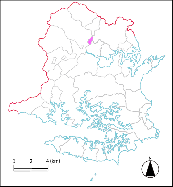 This is the map of Isobecho-Kaminogo, Shima, Mie, Japan.